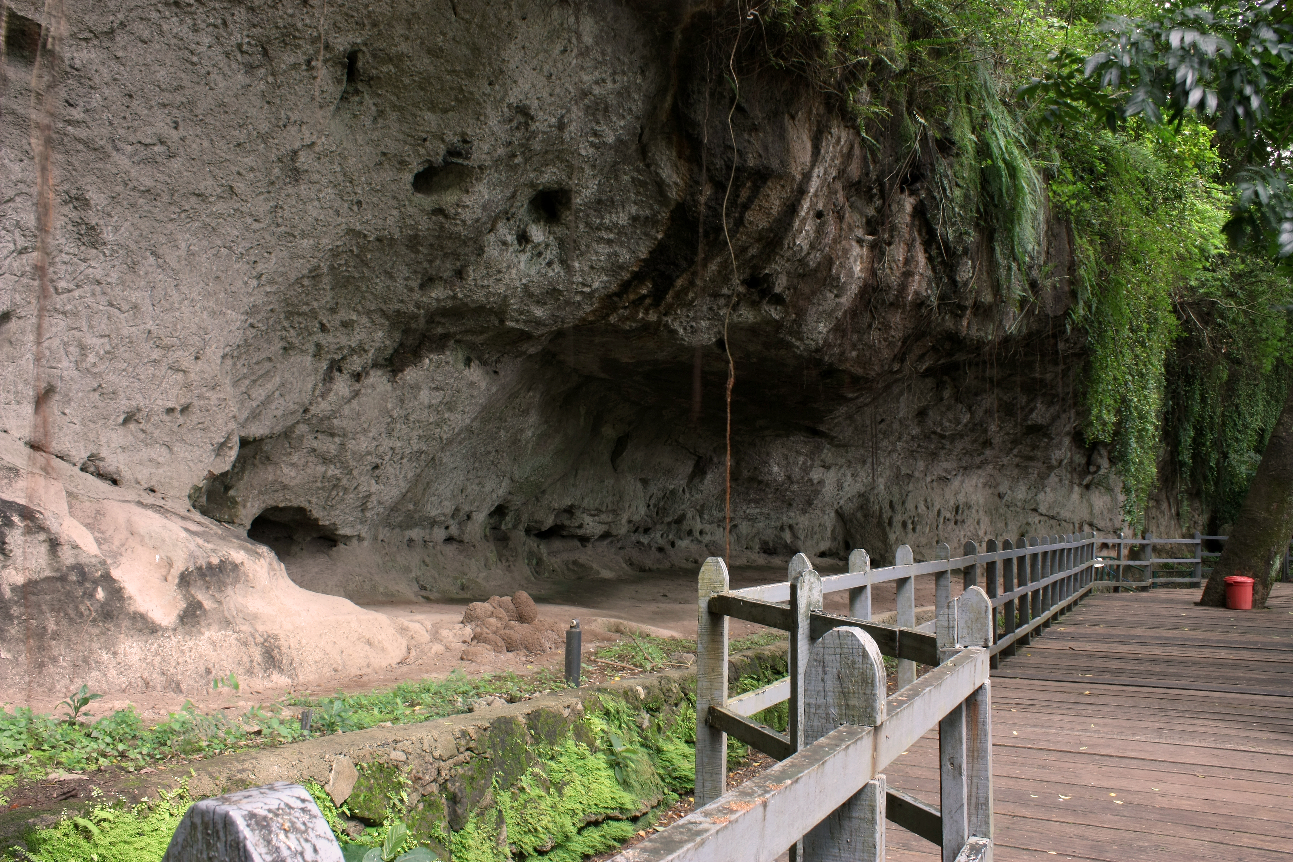 In 1973, by virtue of Presidential Decree No. 260, it was declared as a national cultural treasure by the Philippine government and since have been preserved and developed for future generations.